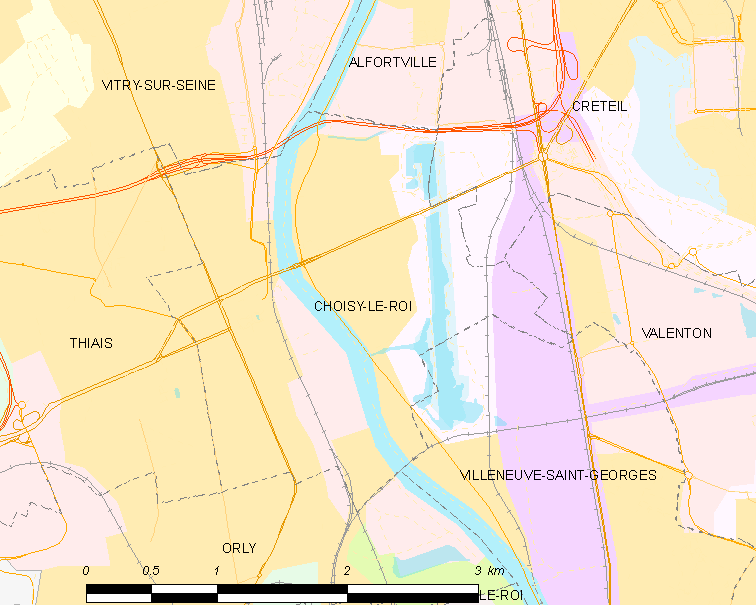 Map of French municipality Choisy-le-Roi